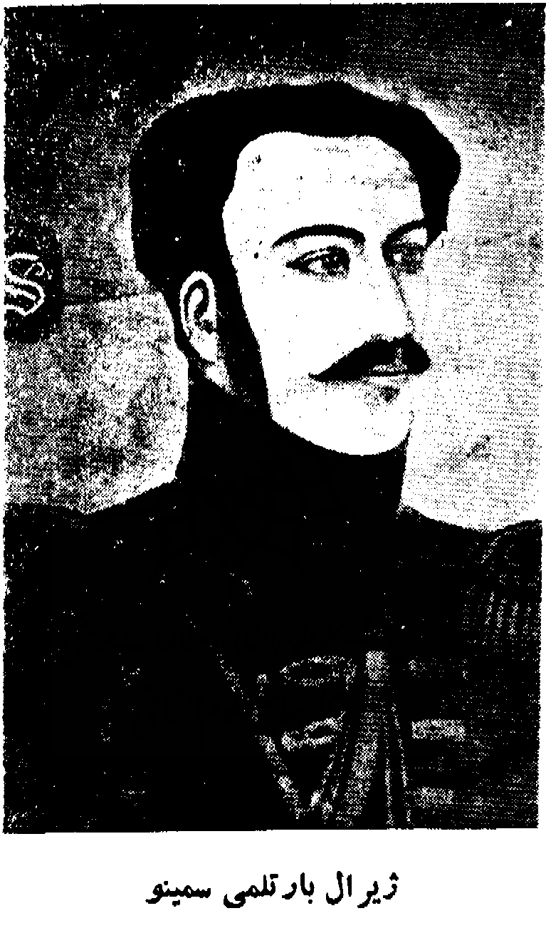 GENERAL BARTH SEMINO